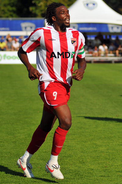 Photo of soccer player, Gifton Noel-Williams.